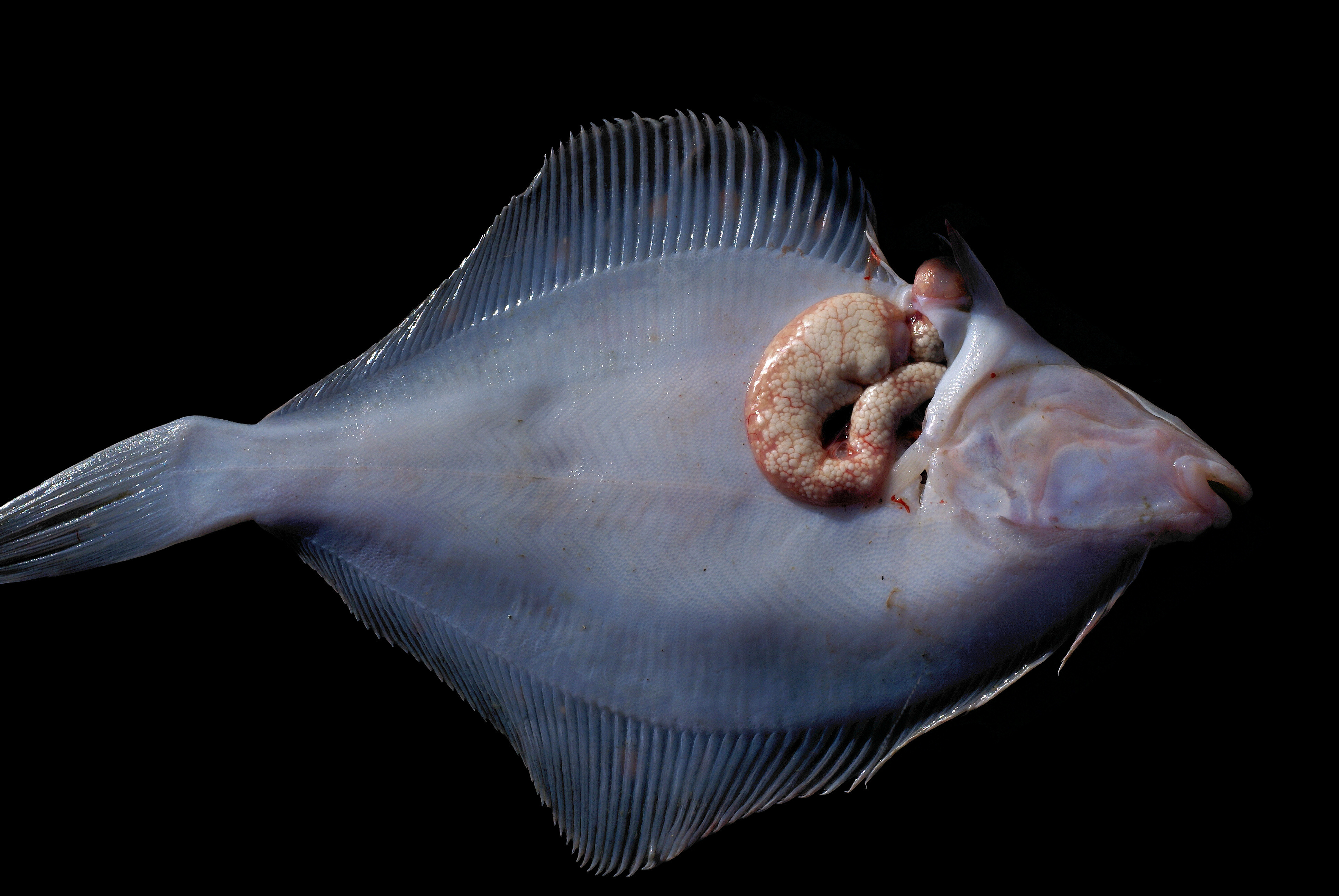 This microsporidan is a common parasite in the intestines of dab (Limanda limanda). Picture taken from a dab caught at the Vlakte van de Raan on the Belgian continental shelf (Southern North Sea).